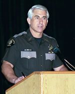 "In a few short years, methamphetamine has become the scourge not only of King County and Washington State, but the entire country. It's time for a comprehensive strategy that crosses political and jurisdictional boundaries and results in solutions that are community-based and include prevention, treatment, enforcement, education, and continuing care." King County Sheriff Dave Reichert